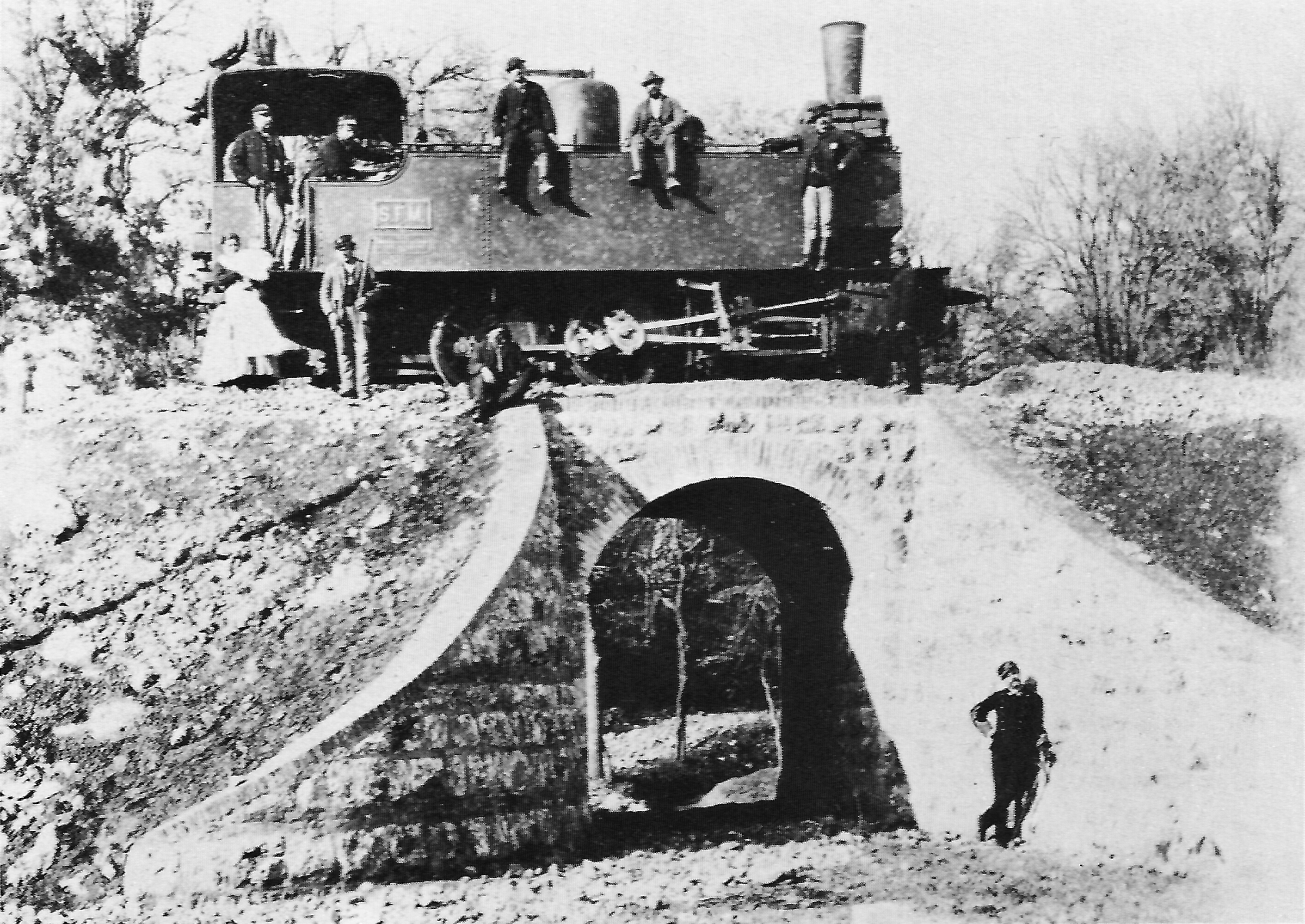 A steamer on the Terni-Rieti-L'Aquila railway some time before its inauguration